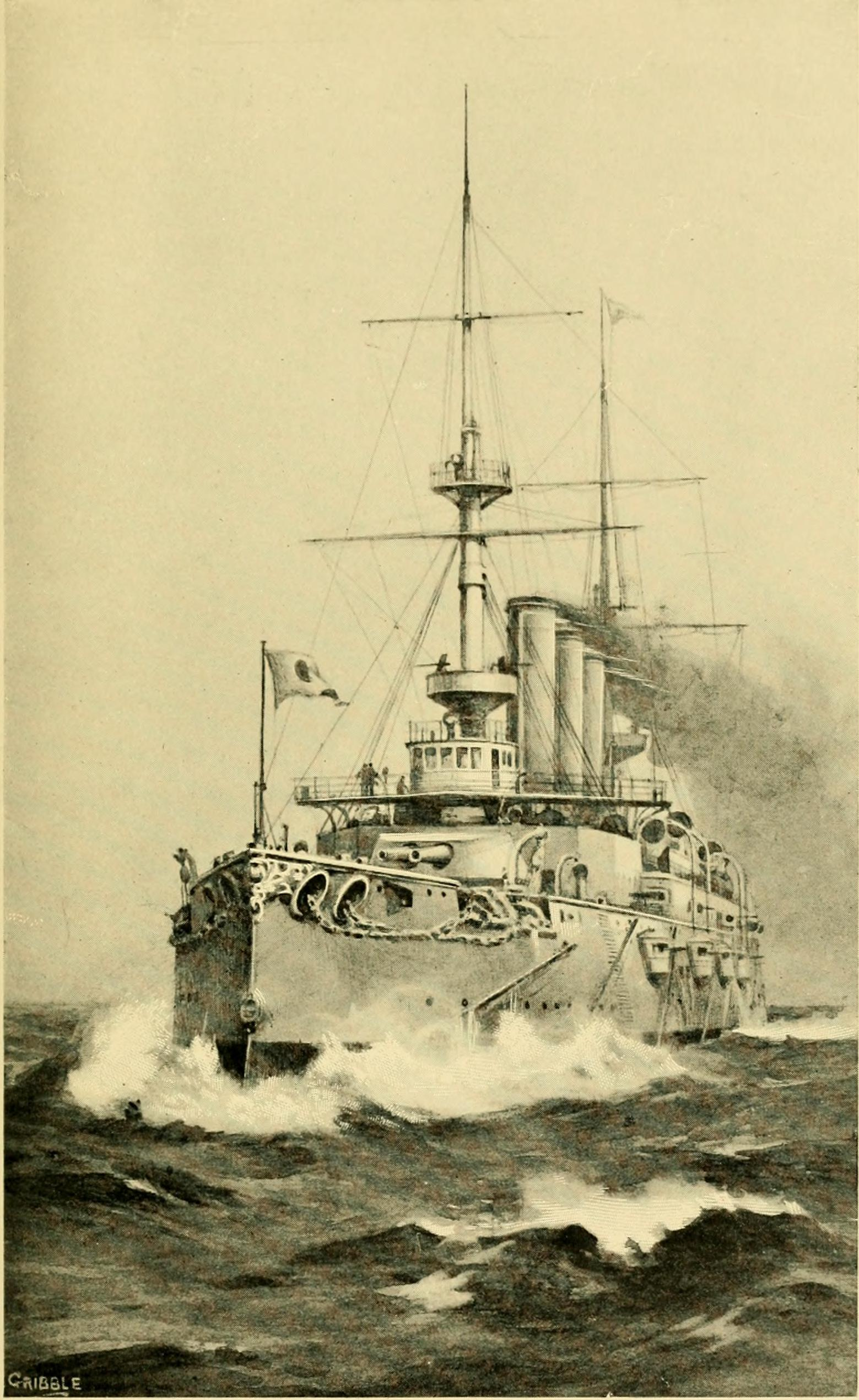 Picture of the Japanese battleship Shikishima.